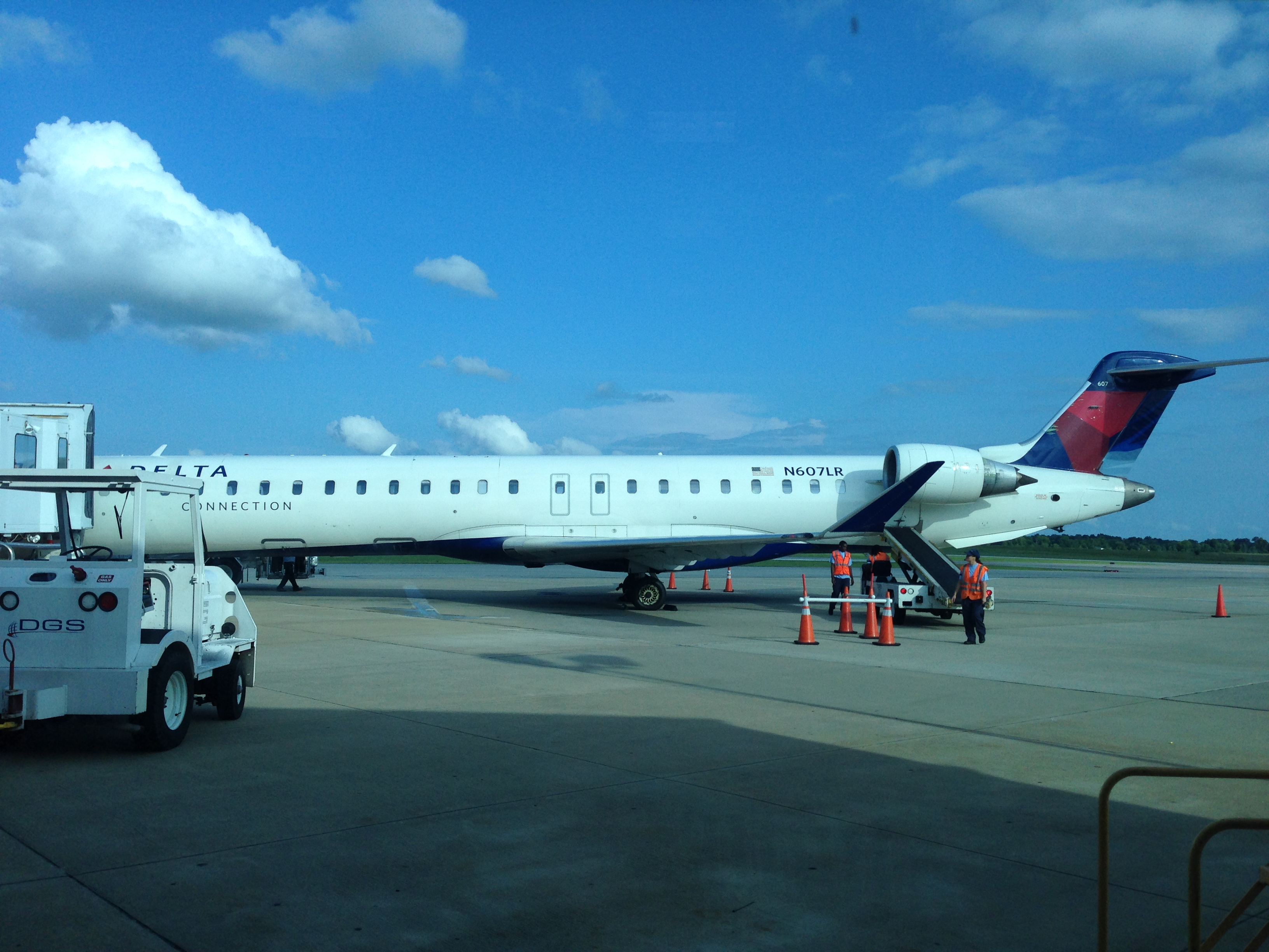 Delta Connection flight 5506 at Gate 1 at the Montgomery Regional Airport. A CRJ-900 operated by ExpressJet. N607RJ.